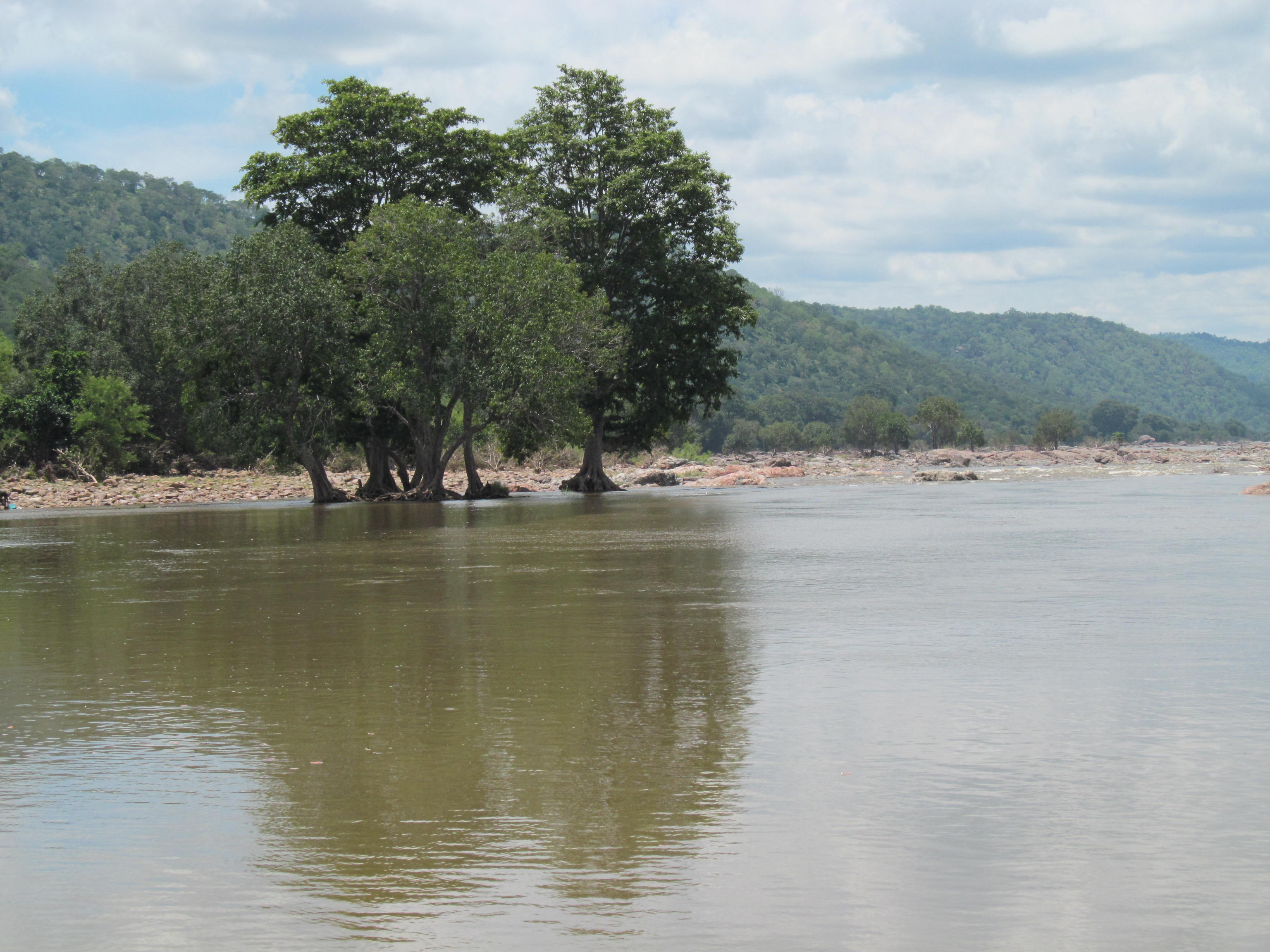 Cauvery Wildlife Sanctuary Landscape.